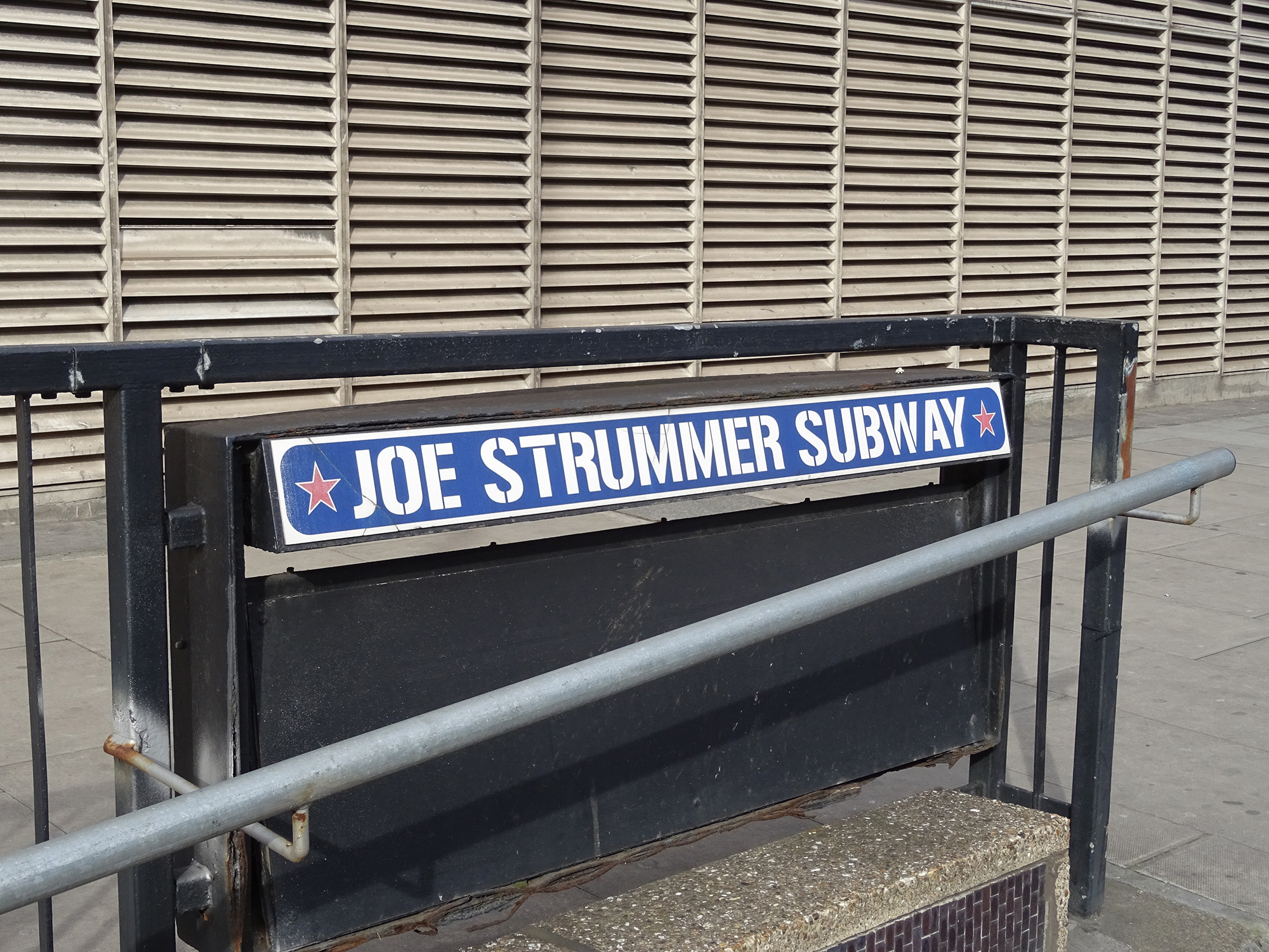 Marylebone Road London W2